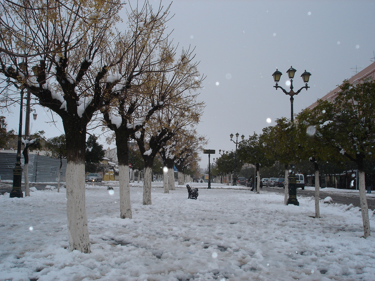 Street at Batna, Algeria